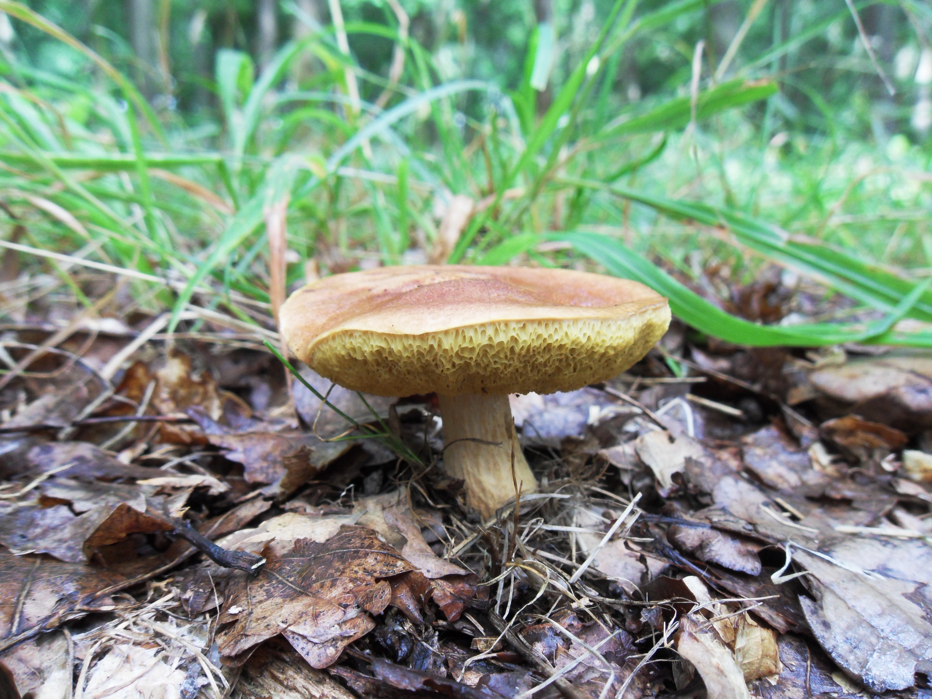 Aureoboletus moravicus, Czech Republic, Žehuňská obora, under oaks